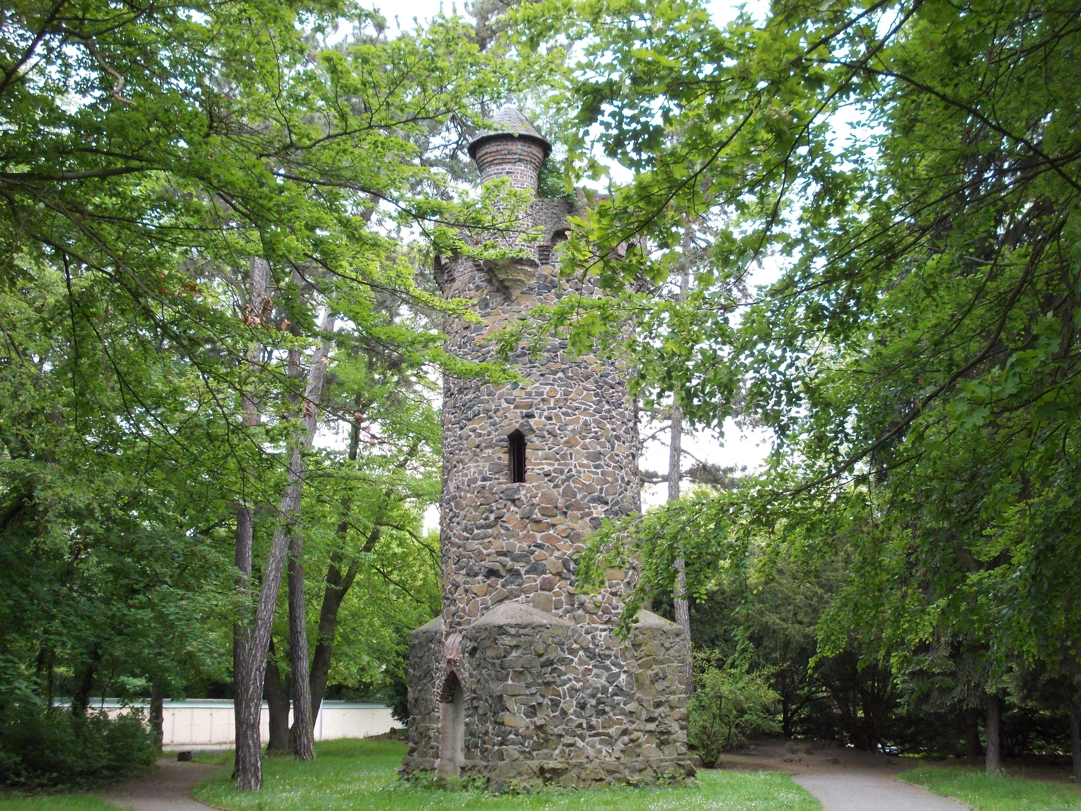 Tower in the municipal park of Wurzen (Leipzig district, Saxony)